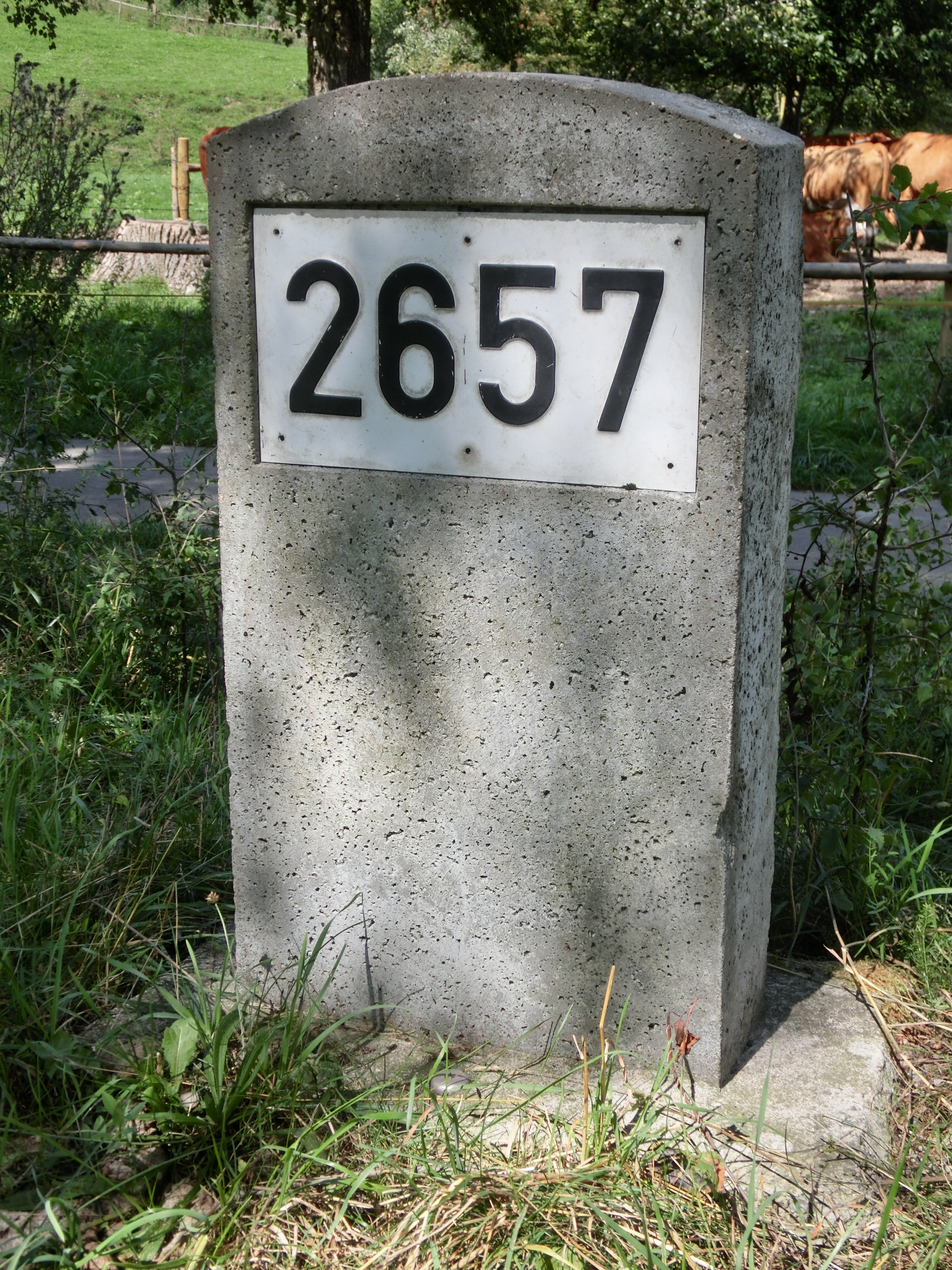 Germany (D) - Baden-Württemberg (BW) - district Biberach (BC) - municipality Ertingen - community Binzwangen: kilometer stone "2657" of river Danube